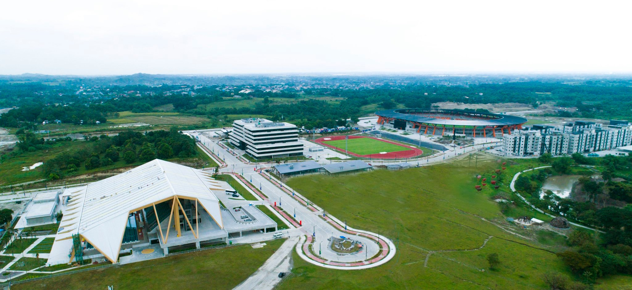 The aerial view of the Phase 1A of the New Clark City built by MTD Philippines.